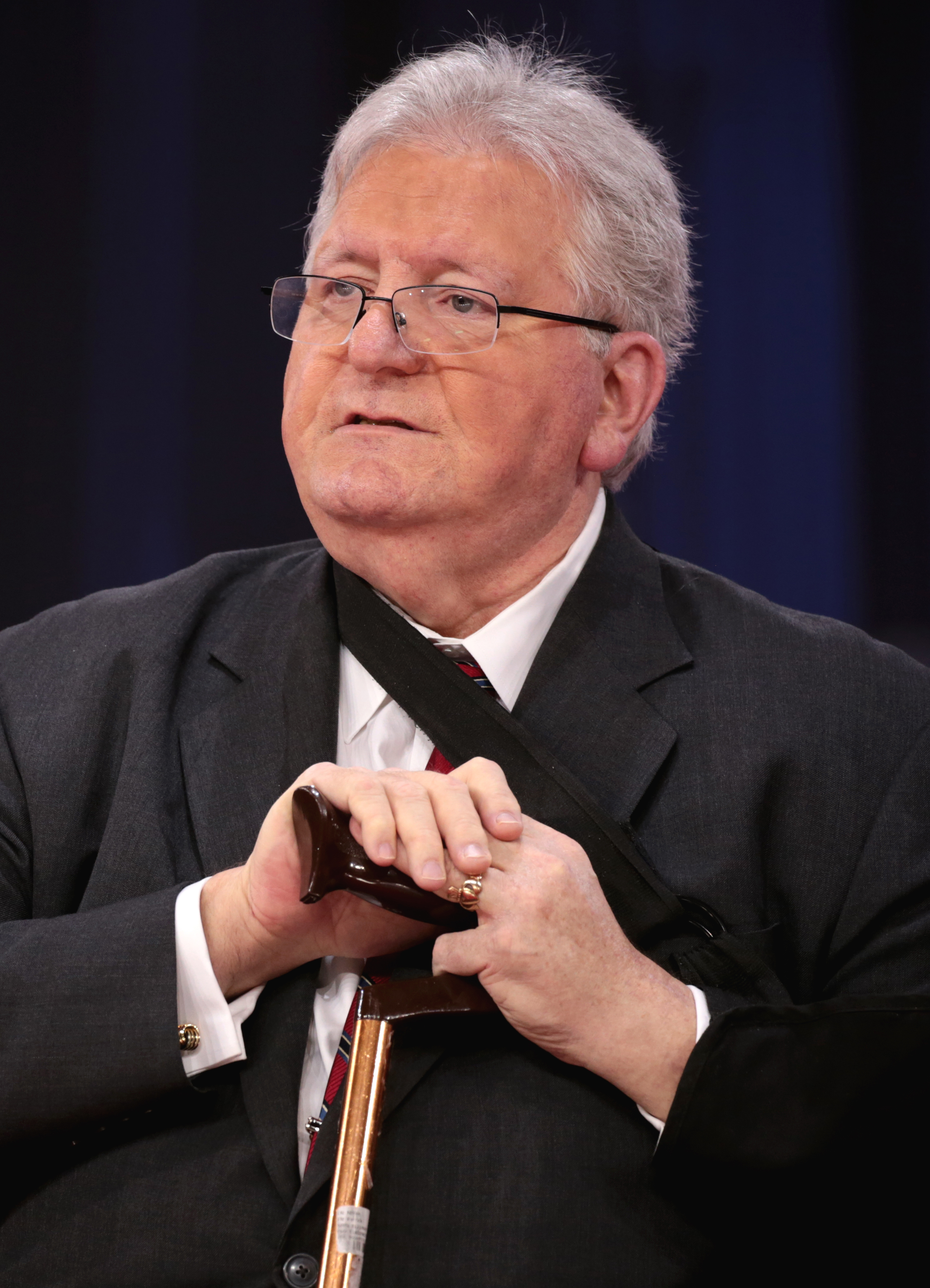 Pat Nolan speaking at the 2018 CPAC in National Harbor, Maryland.